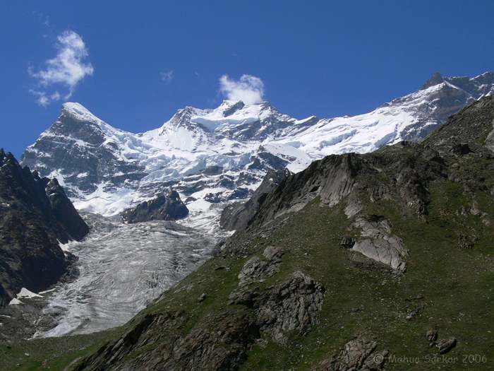 Part of the Nun Kun Massif.